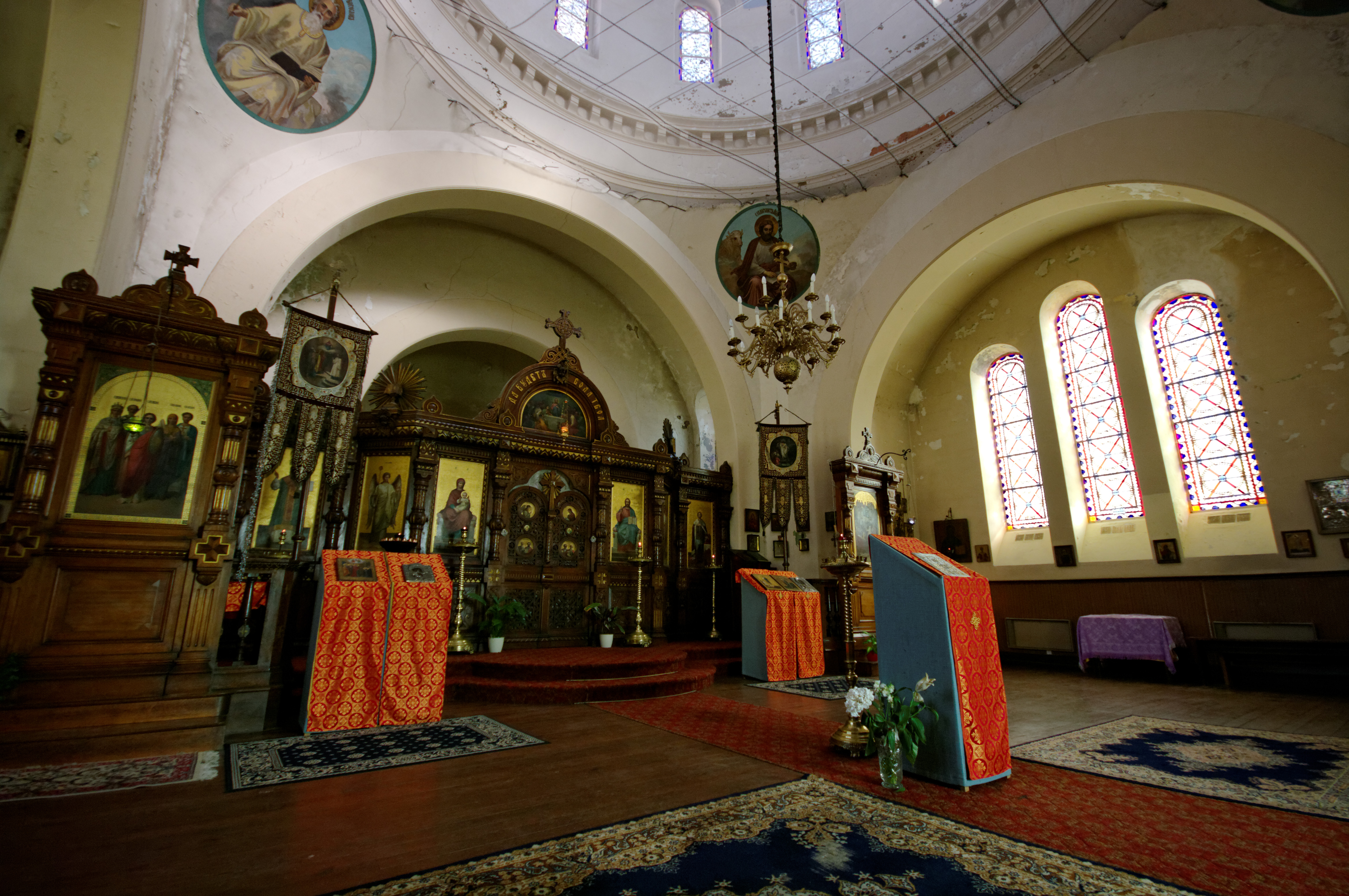 Orthodox Church interior in Biarritz, France